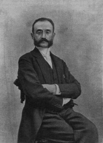 Photo of Sándor Hatvany-Deutsch